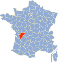 Map of France with highlighted department of Charente (16).